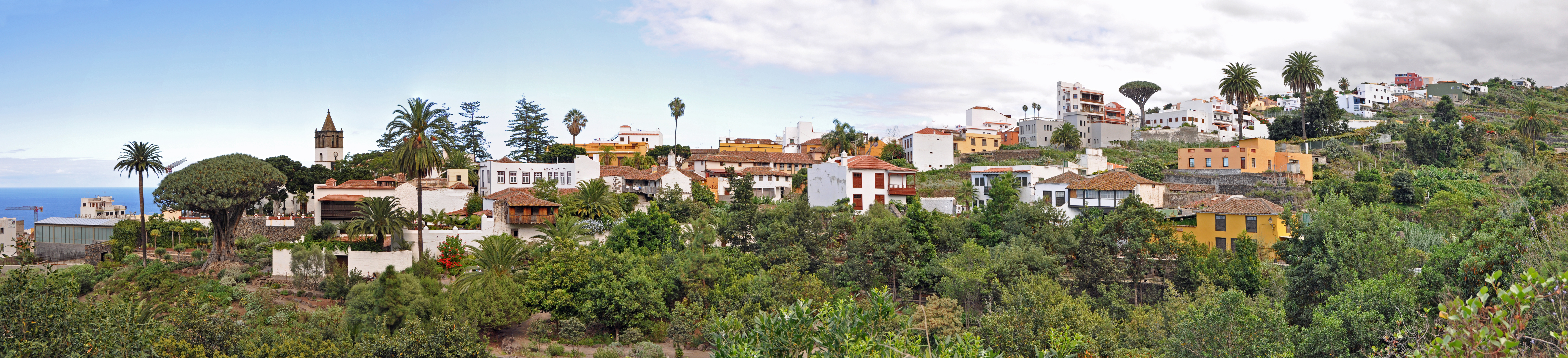 Icod de los Vinos (Tenerife): general view; at the left: the Drago Milenario